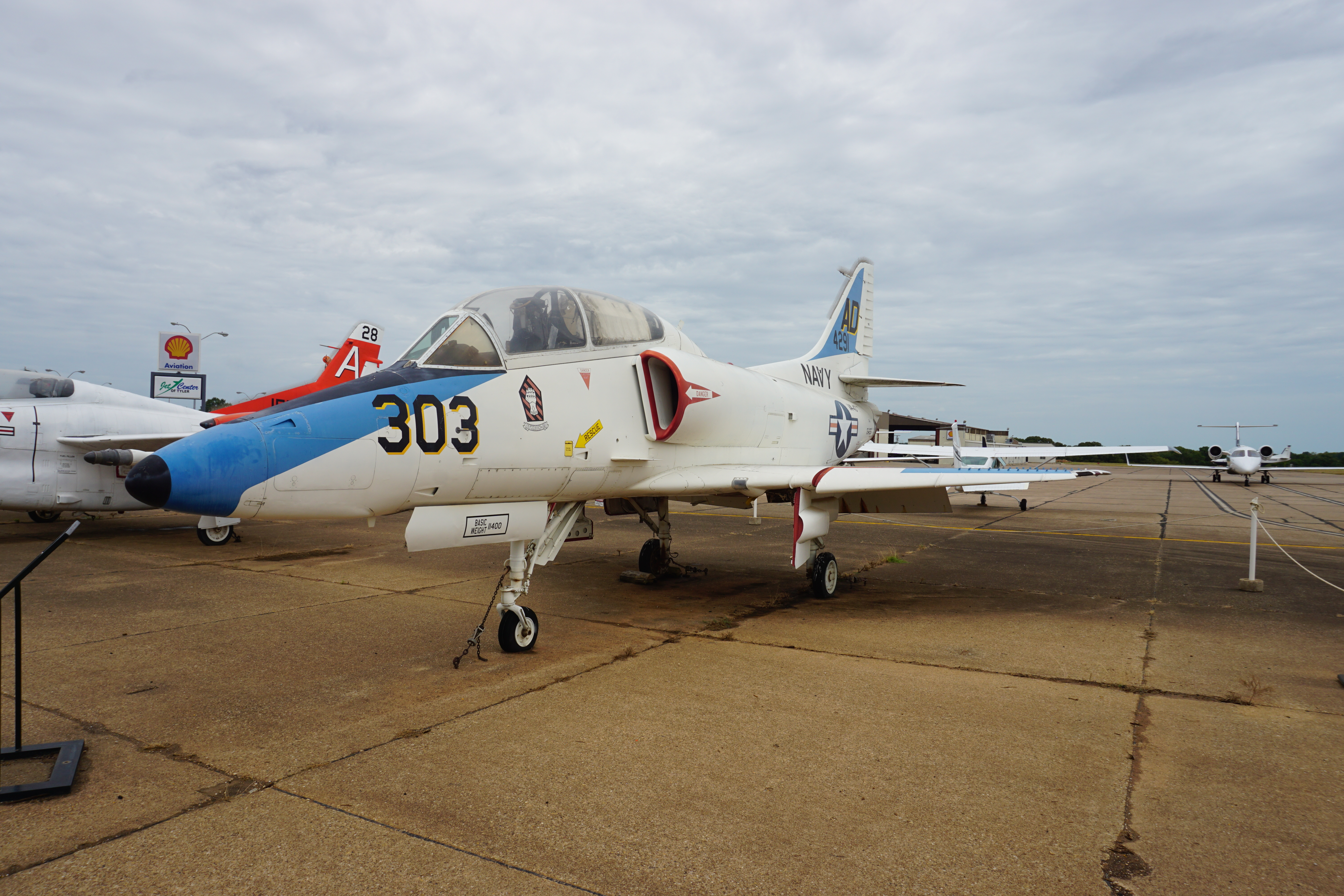 A Douglas TA-4J Skyhawk on display at the Historic Aviation Memorial Museum at Tyler Pounds Regional Airport near Tyler, Texas (United States).